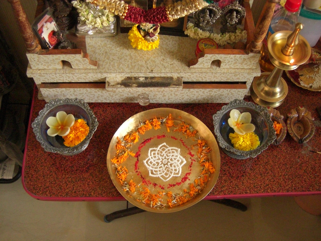 In front of the family shrine: Metal plate decorated with white and red powder and marigolds to form a pattern. It is flanked by two bowls holding flowers. To the right is an oil lamp.